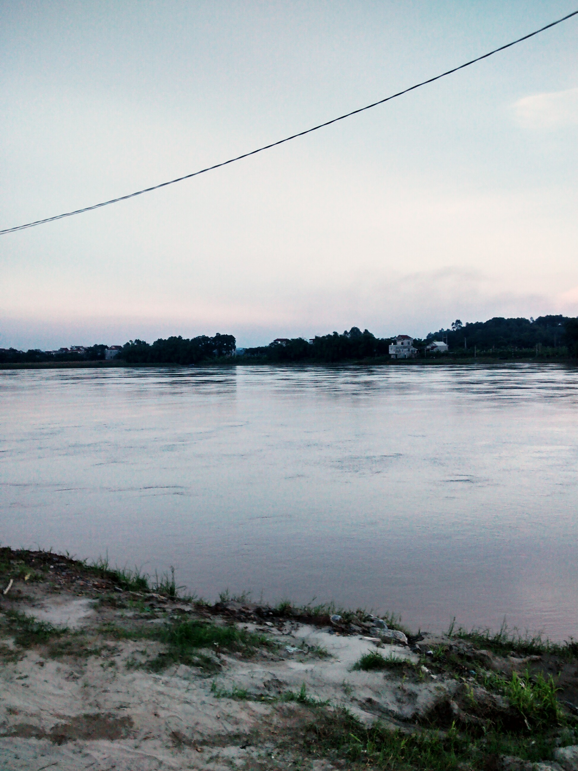 Thao River, northern Vietnam. Photo shot at Cam Khe District, Phu Tho Province.